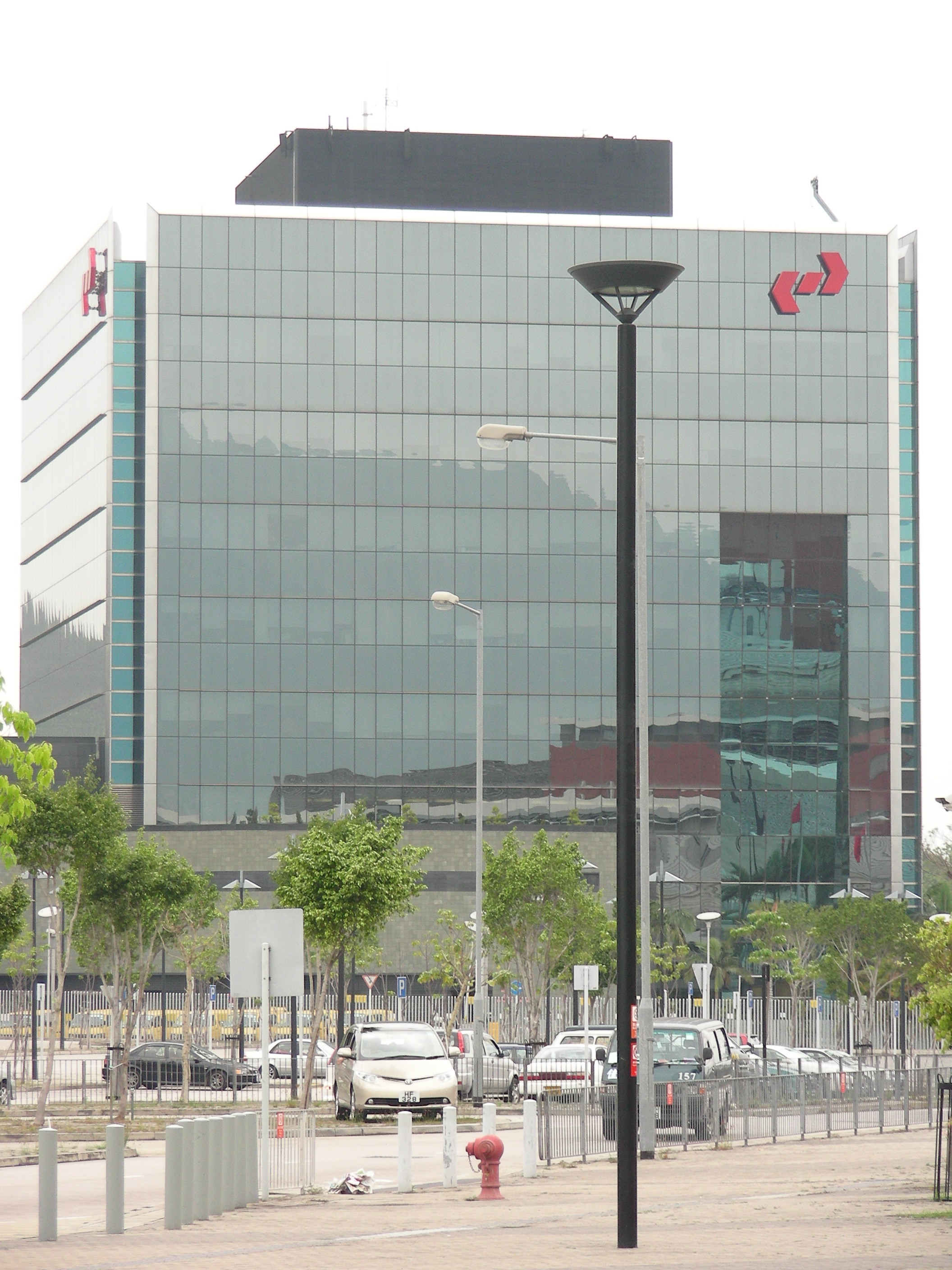 KCR West Rail Kam Tin Building, headquarter of KCR West Rail and Light Rail. Also know as "West Rail Building Kam Tin" on Kam Sheung Road Station exit indication.